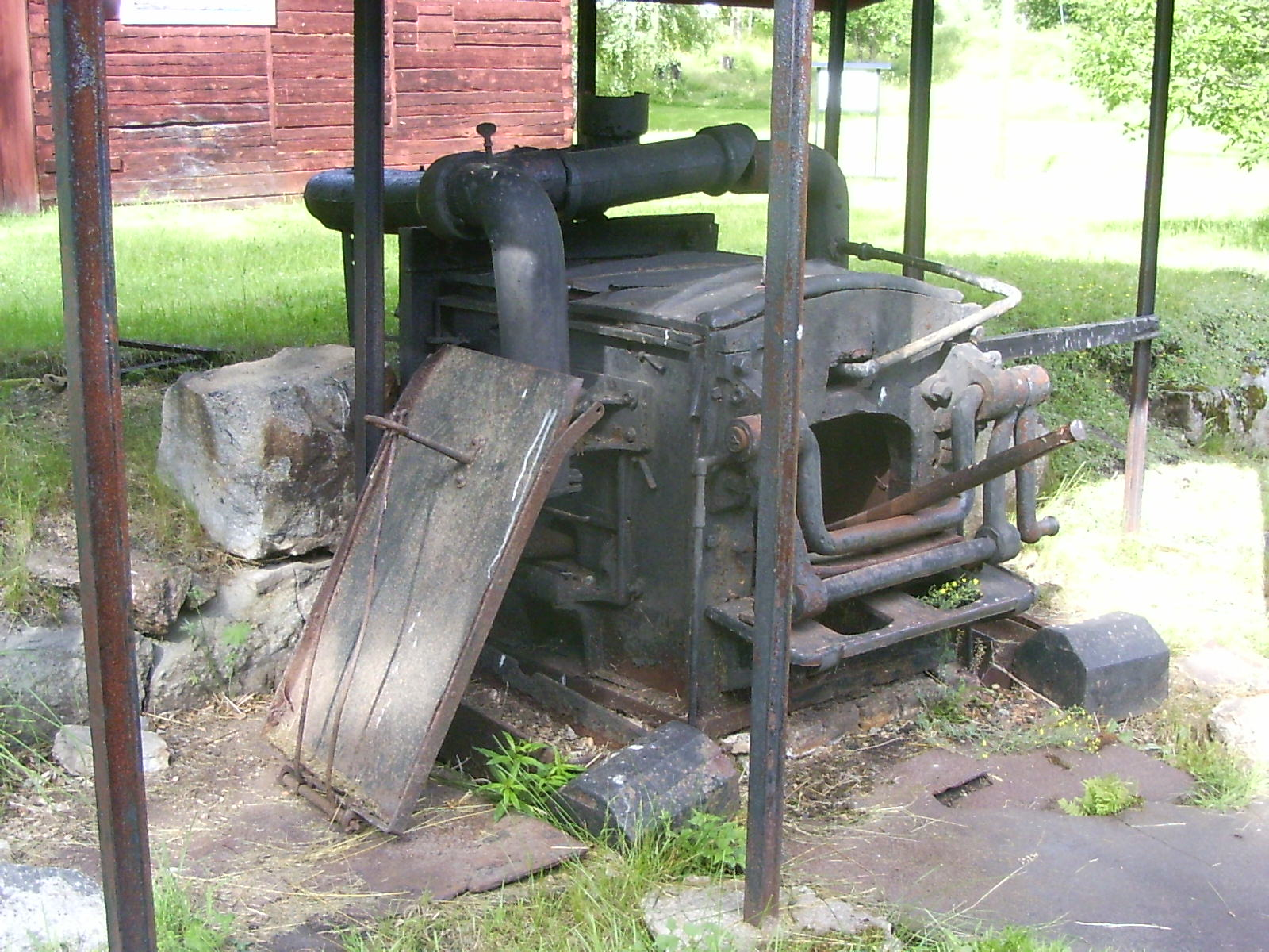 Korså bruk, Lancashire furnace